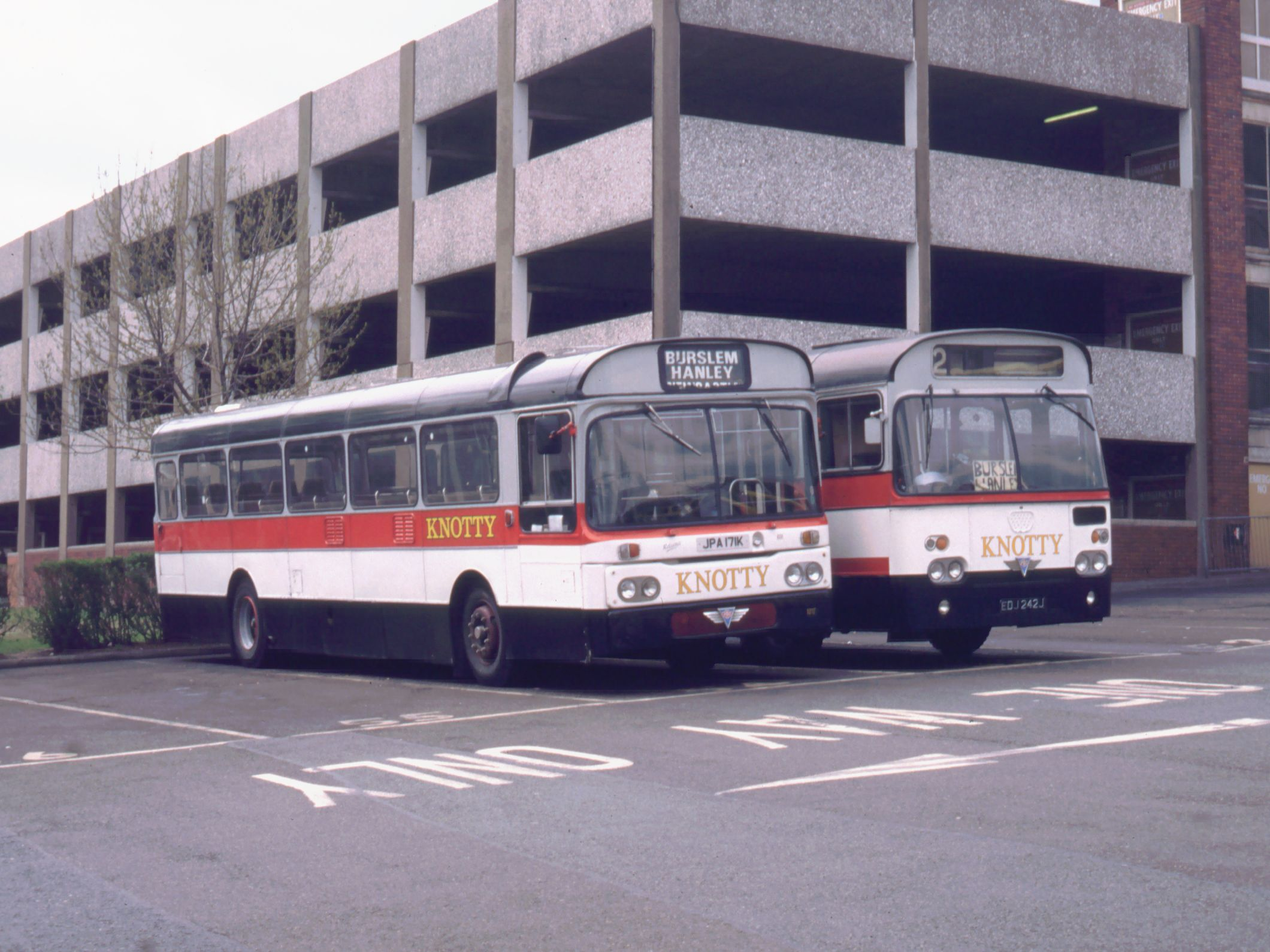 Knotty Bus JPA171K AEC Reliance / Park Royal and EDJ242J AEC Swift / Marshall parked up in Hanley Bus Station